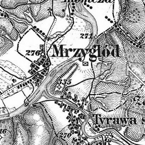 3. Militärische Aufnahme (-1887) Mrzygłód